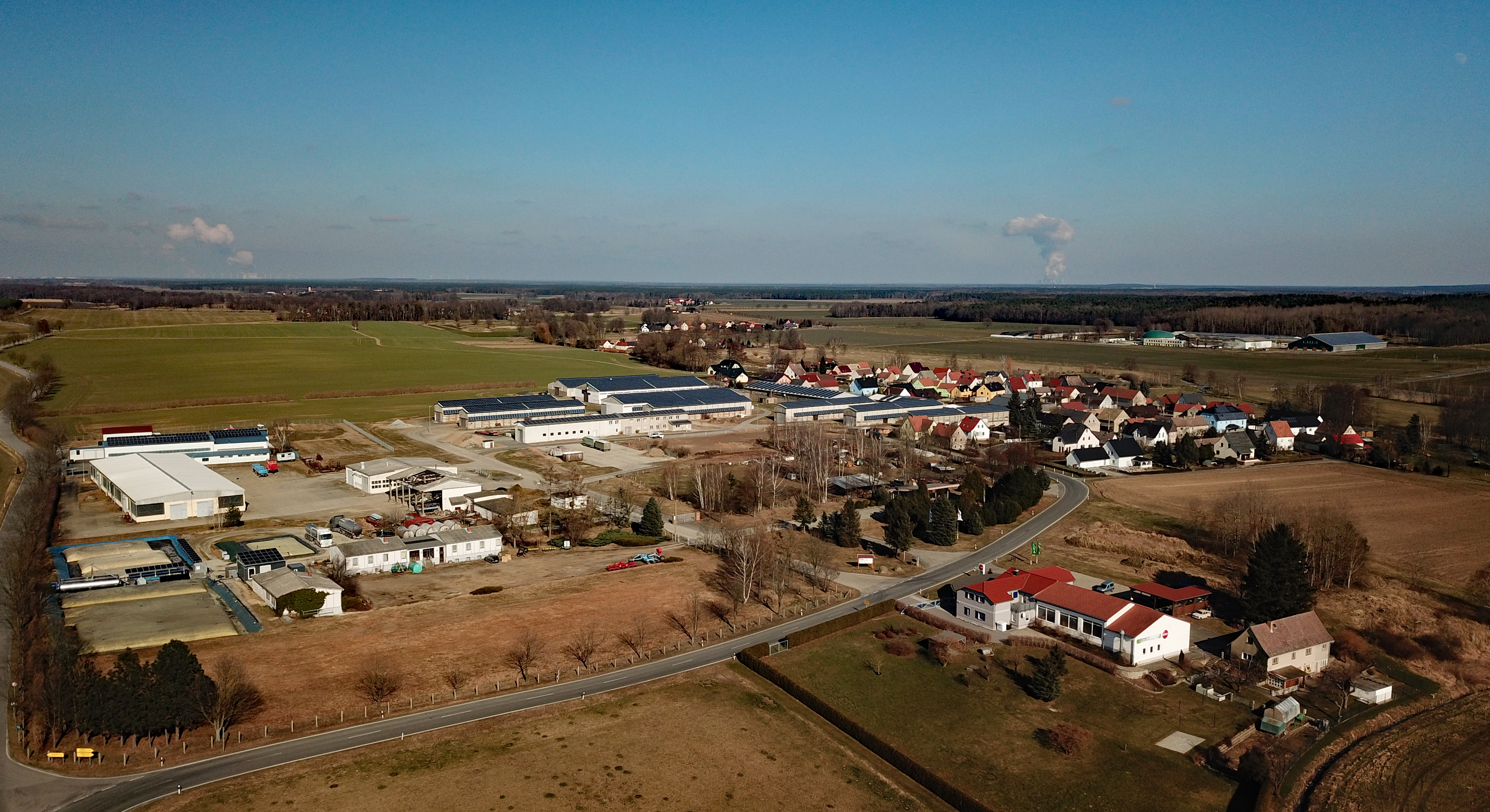 Neudörfel (Räckelwitz, Saxony, Germany) Hornjoserbsce: Powětrowy wobraz Noweje Wjeski.